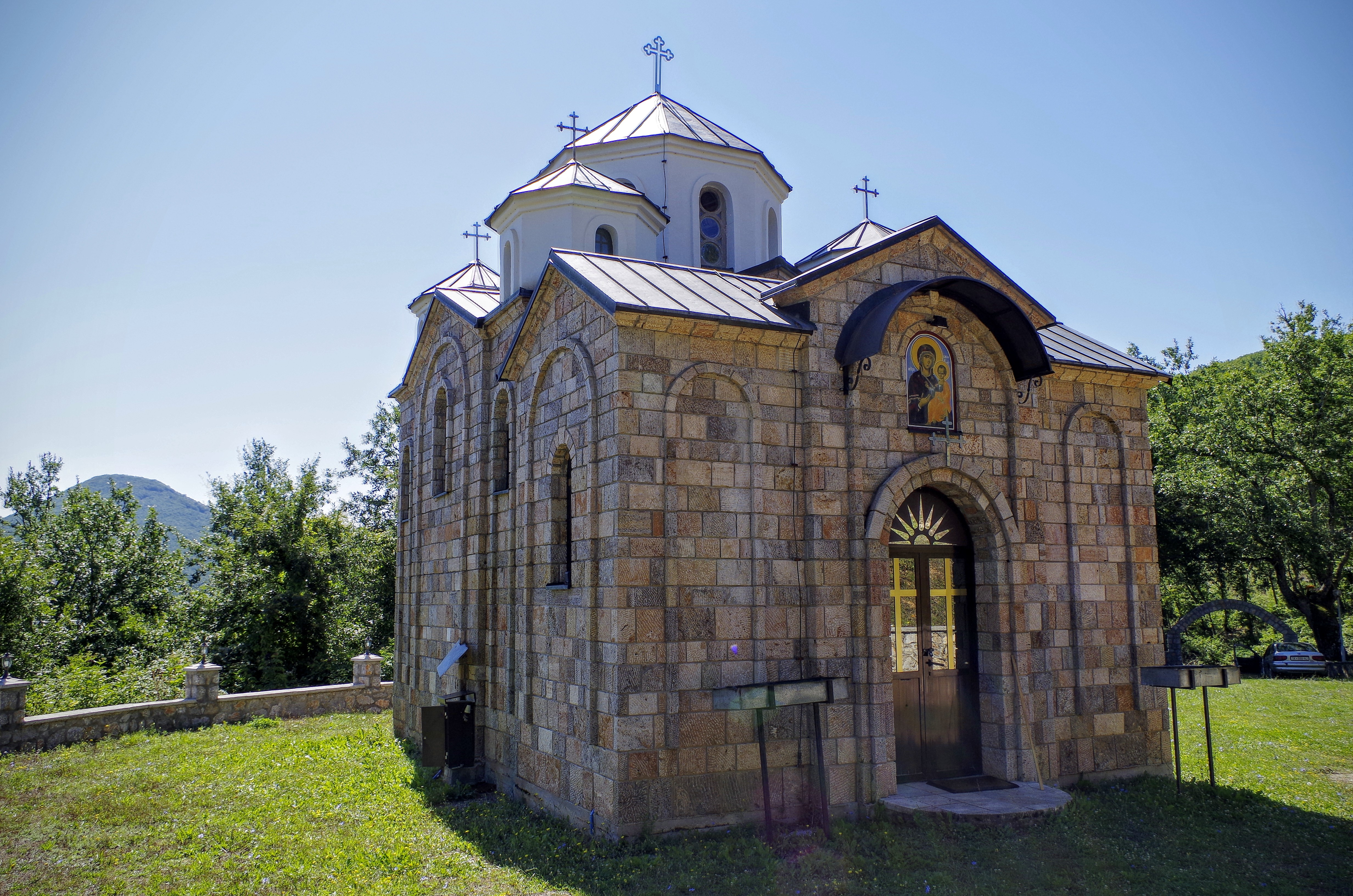 View of St. Mary Church in the village Zlesti, Macedonia